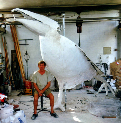 Image of Arne Ranslet (Denish, born in 1931) in his workshop in Spain, 2003